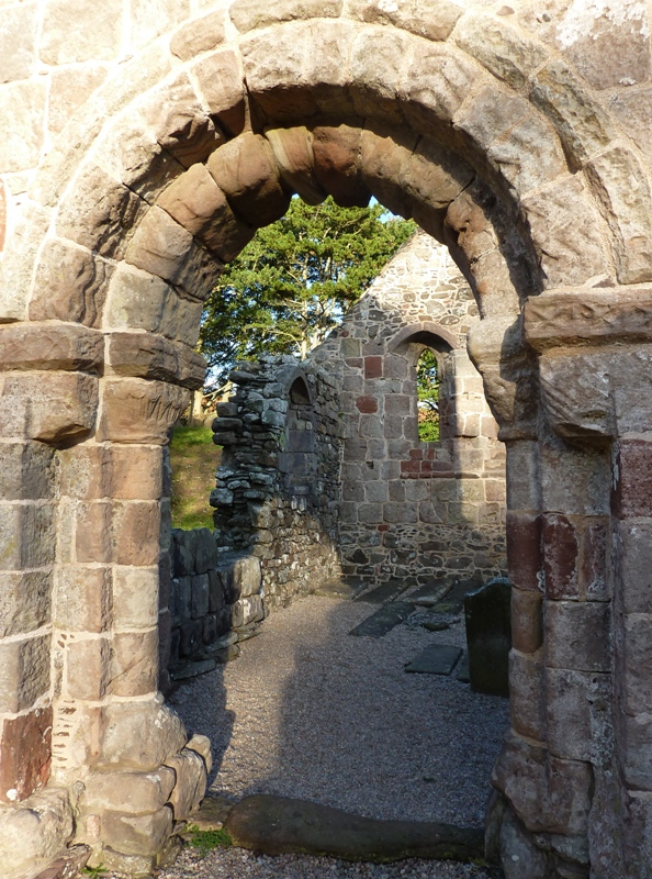 St Blane's Church, Bute, Scotland. Chancel arch looking towards the chancel.